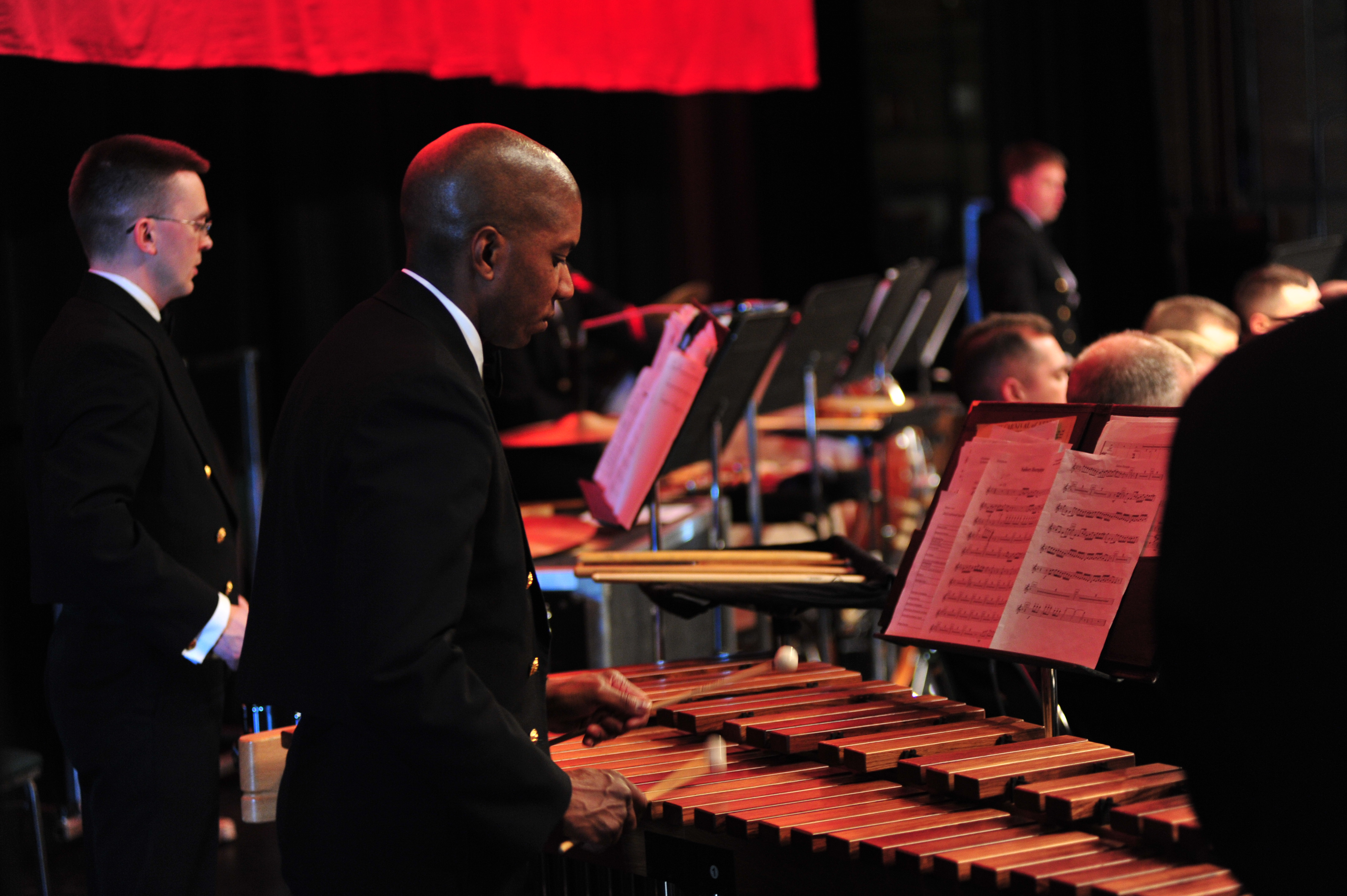 MUC Stacy Loggins plays the xylophone. U.S. Navy photo by MUC Brian Bowman.